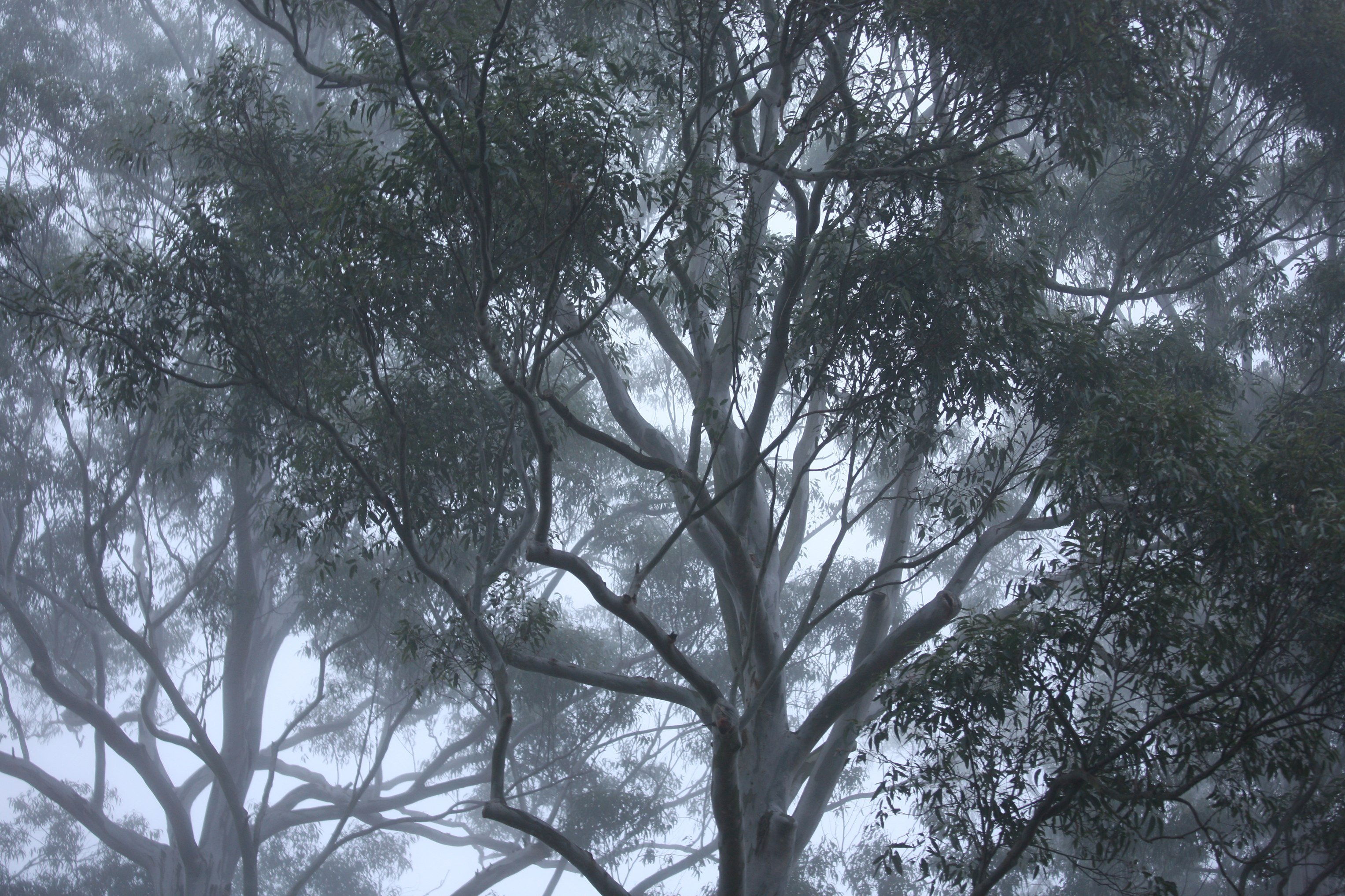 View On Black